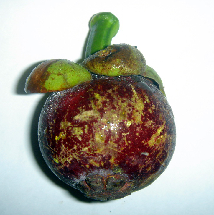 mangosteen